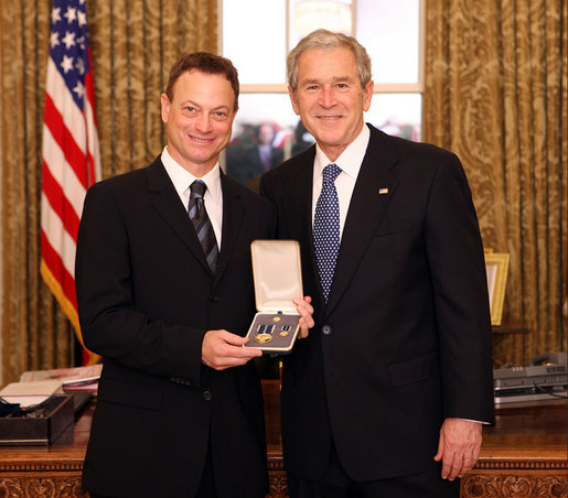 President George W. Bush stands with Gary Sinise after presenting him with the 2008 Presidential Citizens Medal Wednesday, Dec. 10, 2008, in the Oval Office of the White House. White House photo by Chris Greenberg